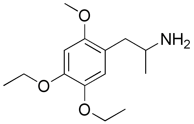 Chemical structure of MEE, drawn in ChemDraw by User:Mark PEA.